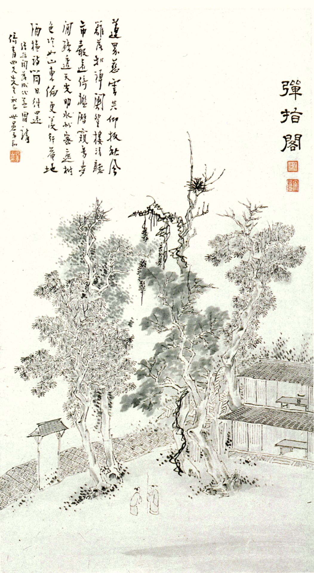 The Tanzhi Pavillion (弹指阁) by Gao Xiang. Hanging scoll, ink on paper, 68.5 x 38 cm. Yangzhou Museum. The painting is of a location within the western part of Tianning temple in Yangzhou. See: Barnhart, R. M. et al. (1997). Three thousand years of Chinese painting. New Haven, Yale University Press. ISBN 0-300-07013-6 page 278.